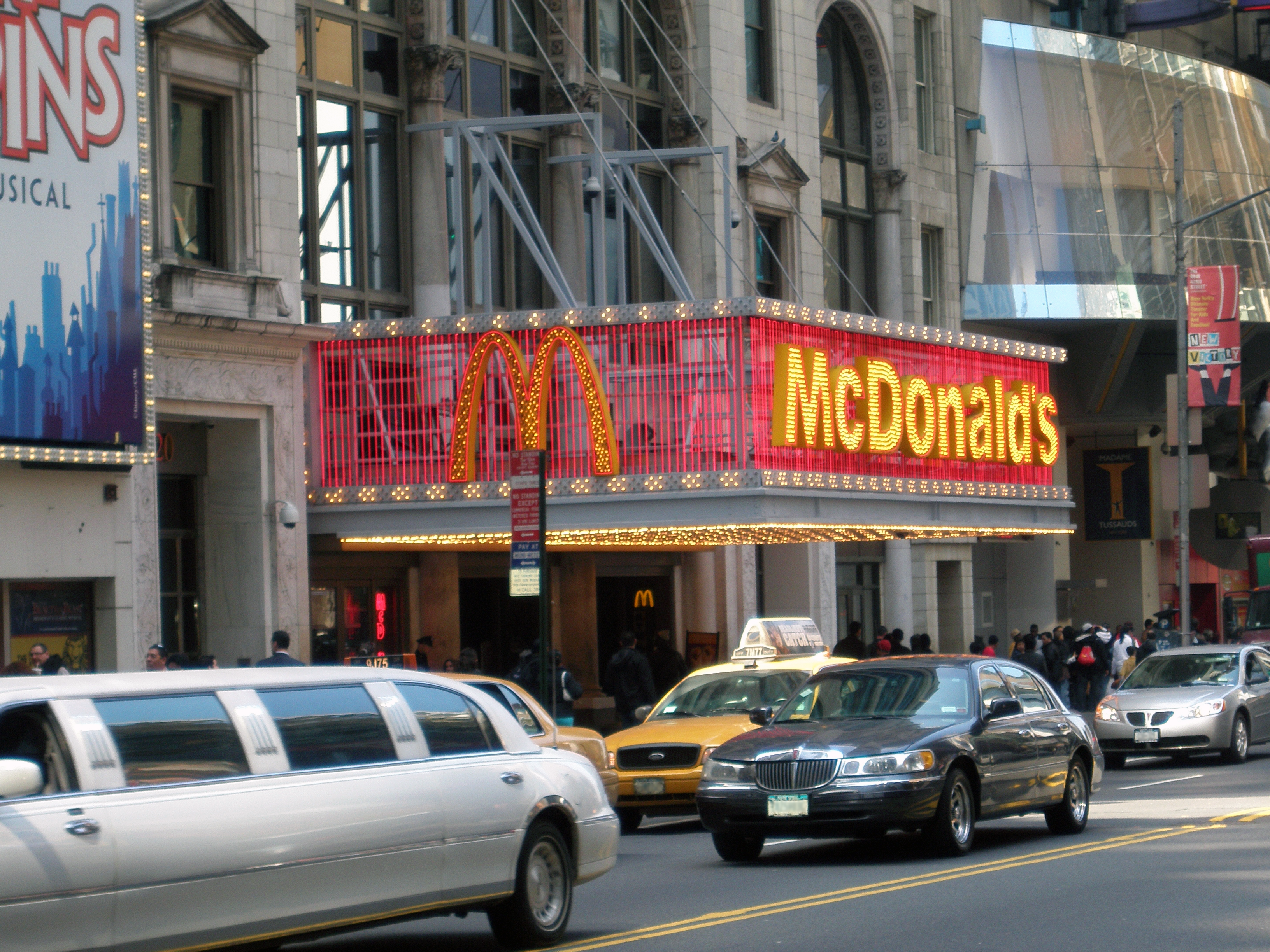 McDonalds on West 42nd Street in Times Square, New York City. Madame Tussauds wax museum is seen to the right. Number plates on cars have been blurred. Object location40° 45′ 22.6″ N, 73° 59′ 16.3″ W